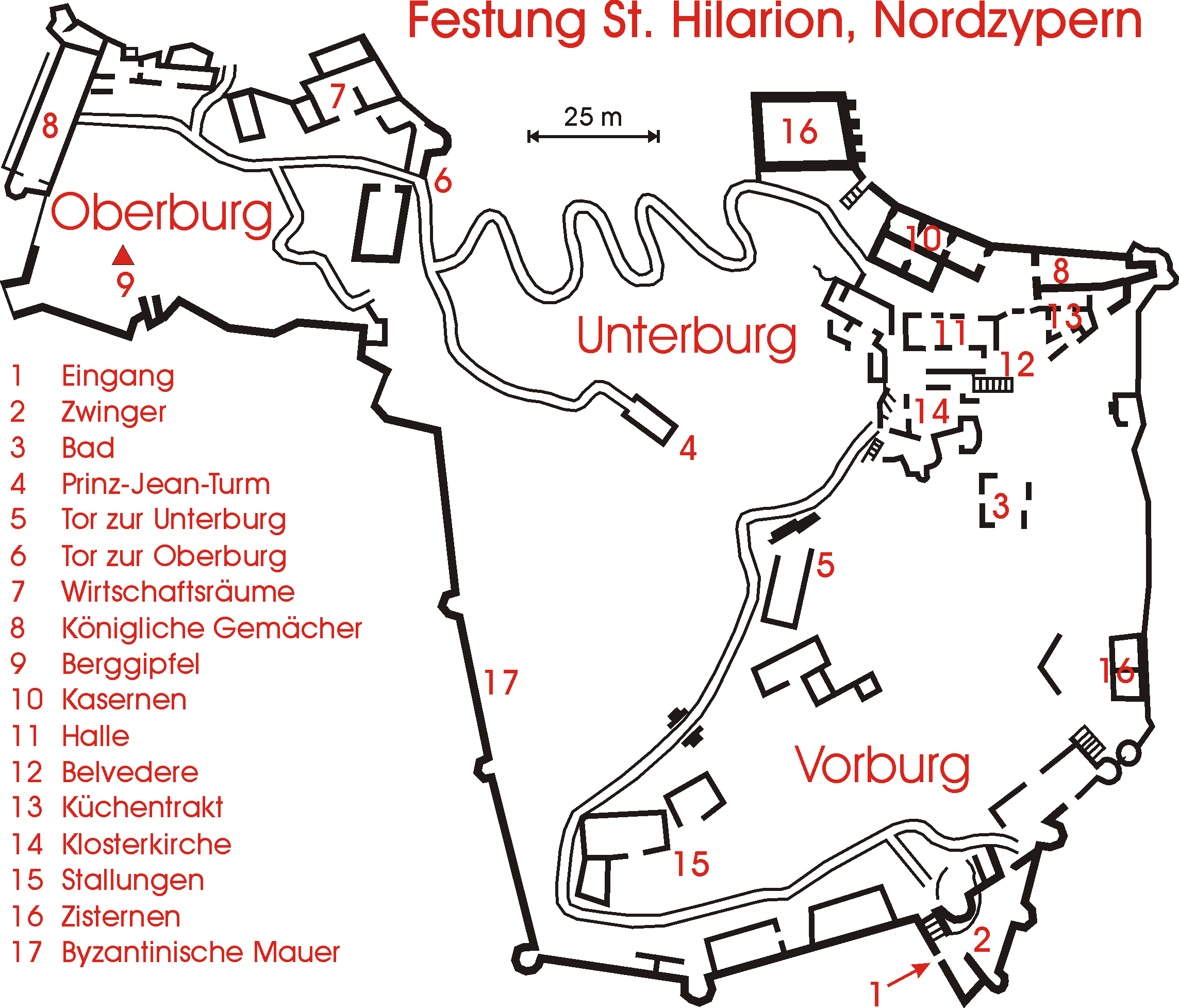 Maps of St. Hilarion Castle, North Cyprus, Near Keryneia